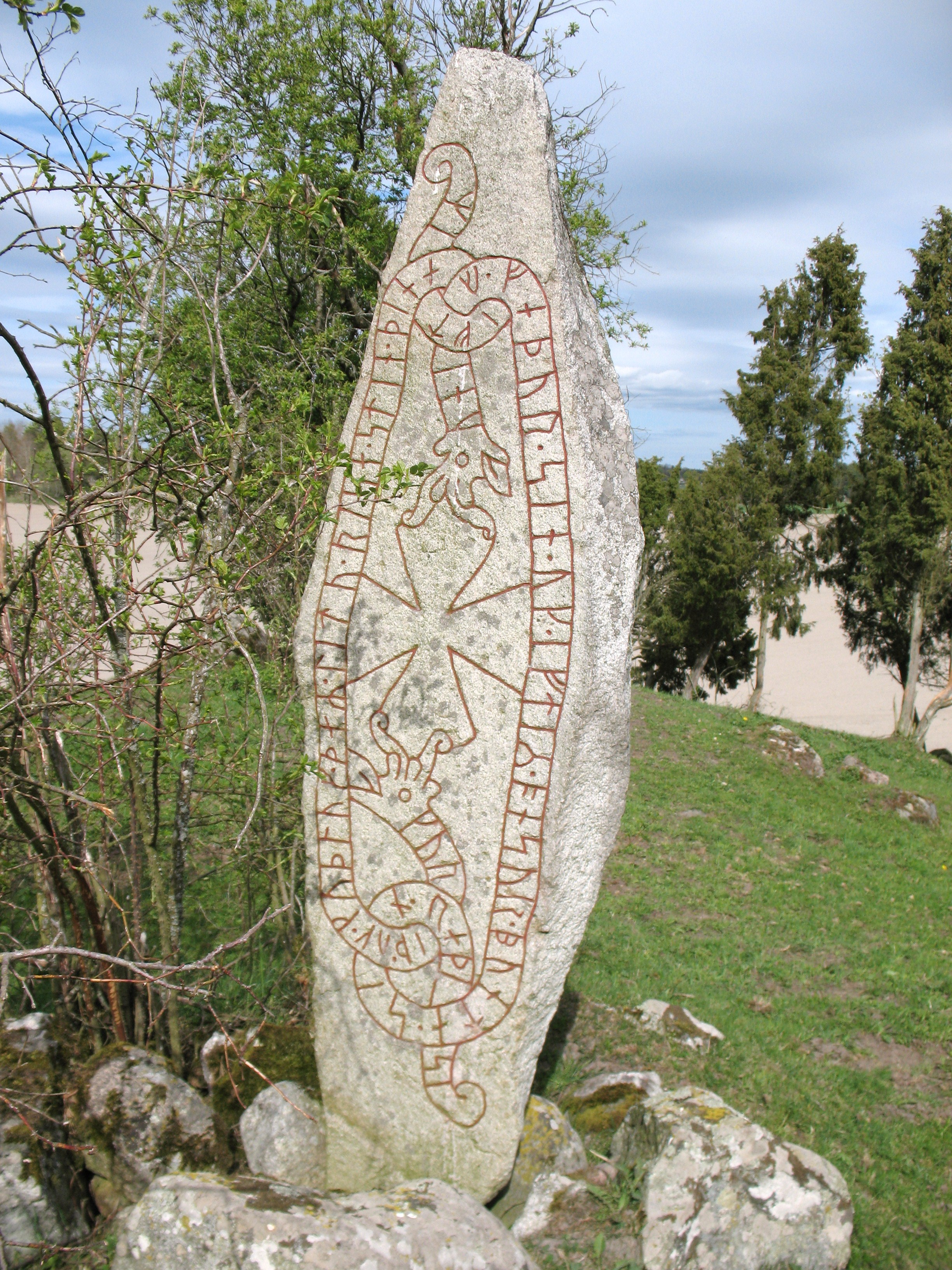 Runestone U 328, Lundby, Vallentuna. Originally Markim 149:1, now Markim 6:2.